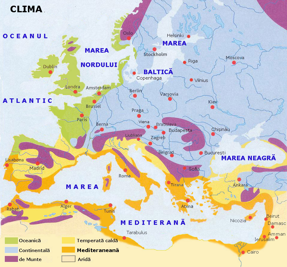 Climatic map of Europe (Romanian)